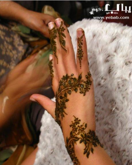 رسم حناء